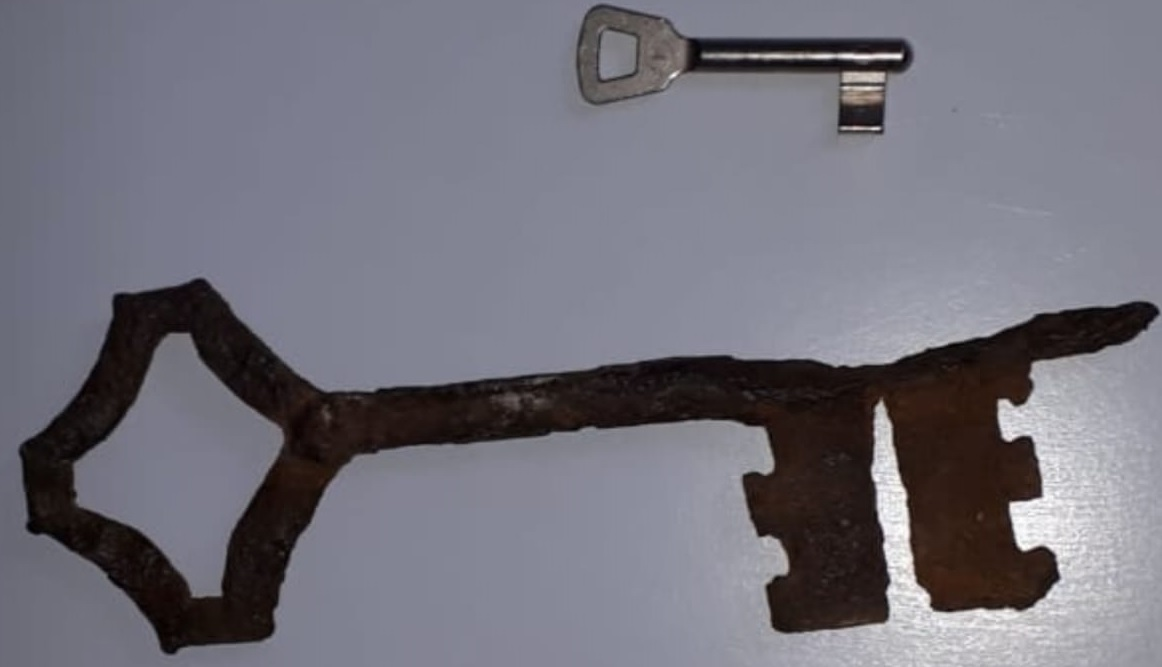 Romanik key